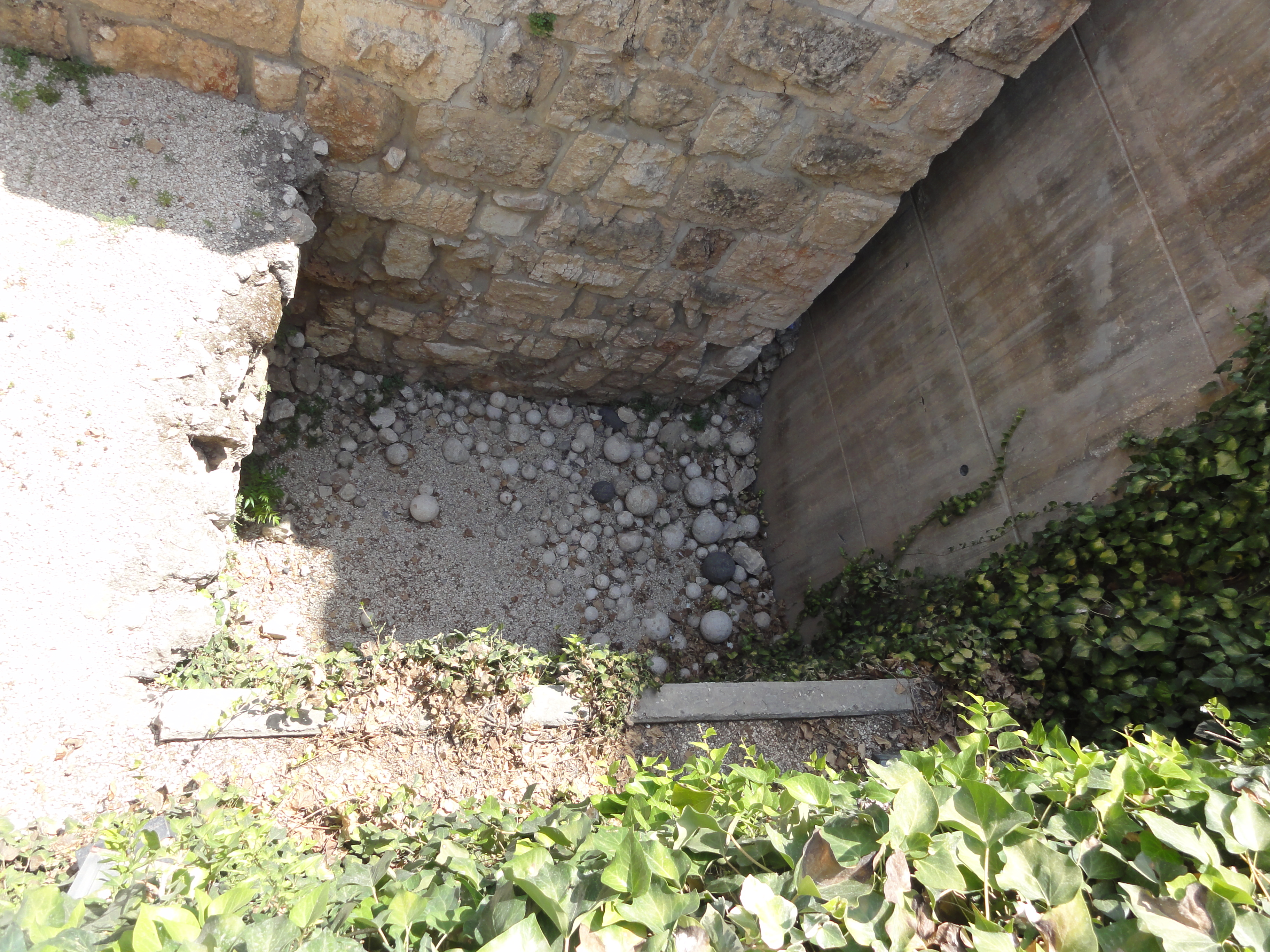 Tower of David: Old cannon balls (stone)